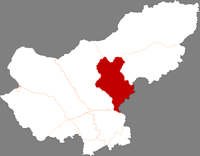 Locator map of Xilinhot County-level city in Xilingol League, Inner Mongolia, China